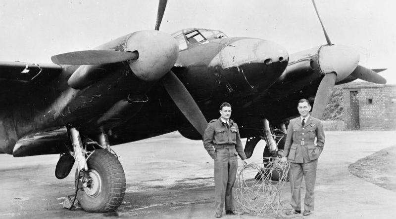 Royal Air Force Fighter Command, 1942-1945. Wing Commander F W Hillock, Officer Commanding No. 410 Squadron RCAF (left), and Flight Lieutenant P O'Neill-Dunne (right), standing in front of their De Havilland Mosquito NF Mark II at Coleby Grange, Lincolnshire, with 300 feet of copper wireless cable which they brought back wrapped around the aircraft from an intruder operation over Holland. On the night of 15 April 1943, Hillock (pilot) and O'Neill-Dunne (observer) mounted a Night Ranger operation to the Ruhr valley. While flying at low level in poor weather they were suddenly confronted with the radio masts of Apeldoorn station. Hillock threw the Mosquito into a vertical bank and flew straight through the antenna, tearing several away in the process. He then continued with the mission before returning to Coleby Grange, whereupon it was discovered that, not only were they encumbered with the cable, but one wing tip had been sliced off by the breaking antenna and the other wing cut through to the main spar (damage visible on the left).